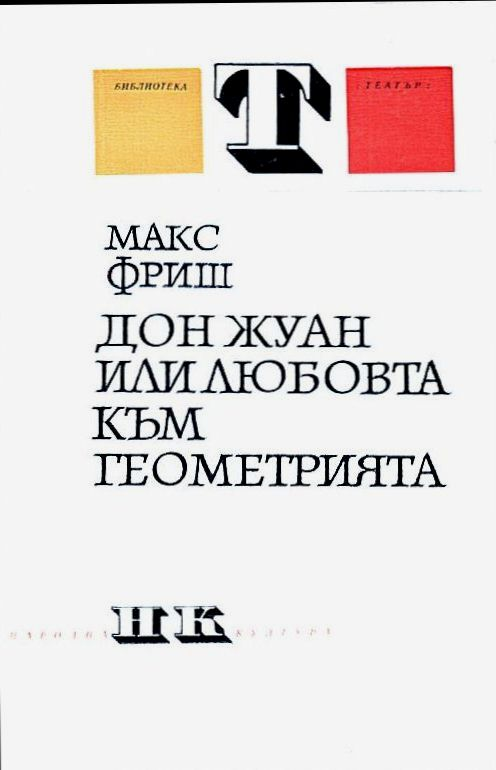 Book cover of Max Frisch, Don Juan 1979